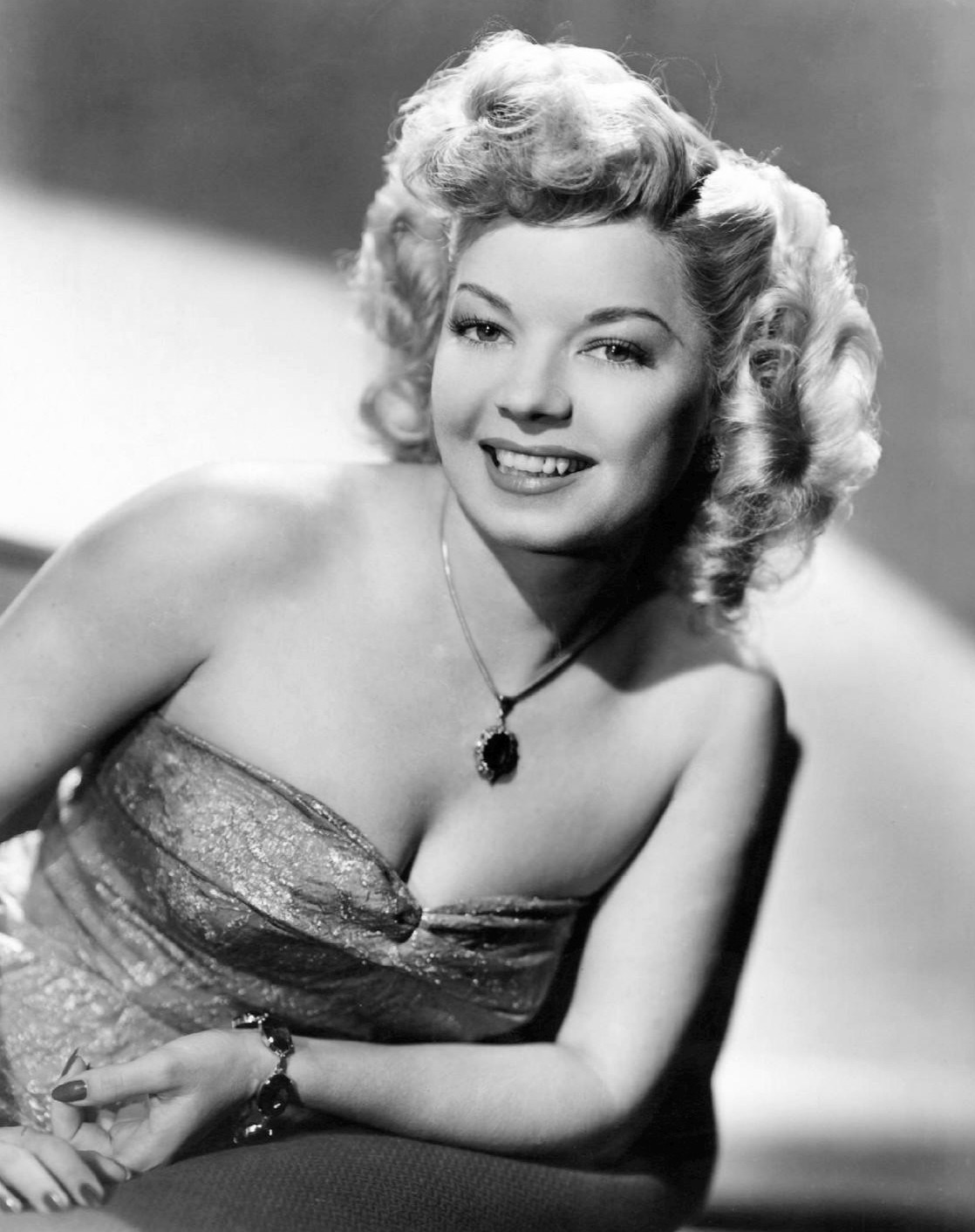 Photo of Frances Langford from the radio program The Drene Show.